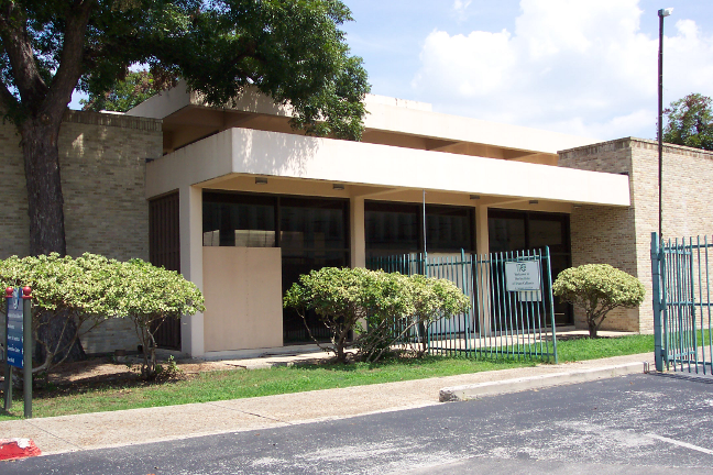 The front side of the Women's Pavilion in HemisFair Park as of 2012.